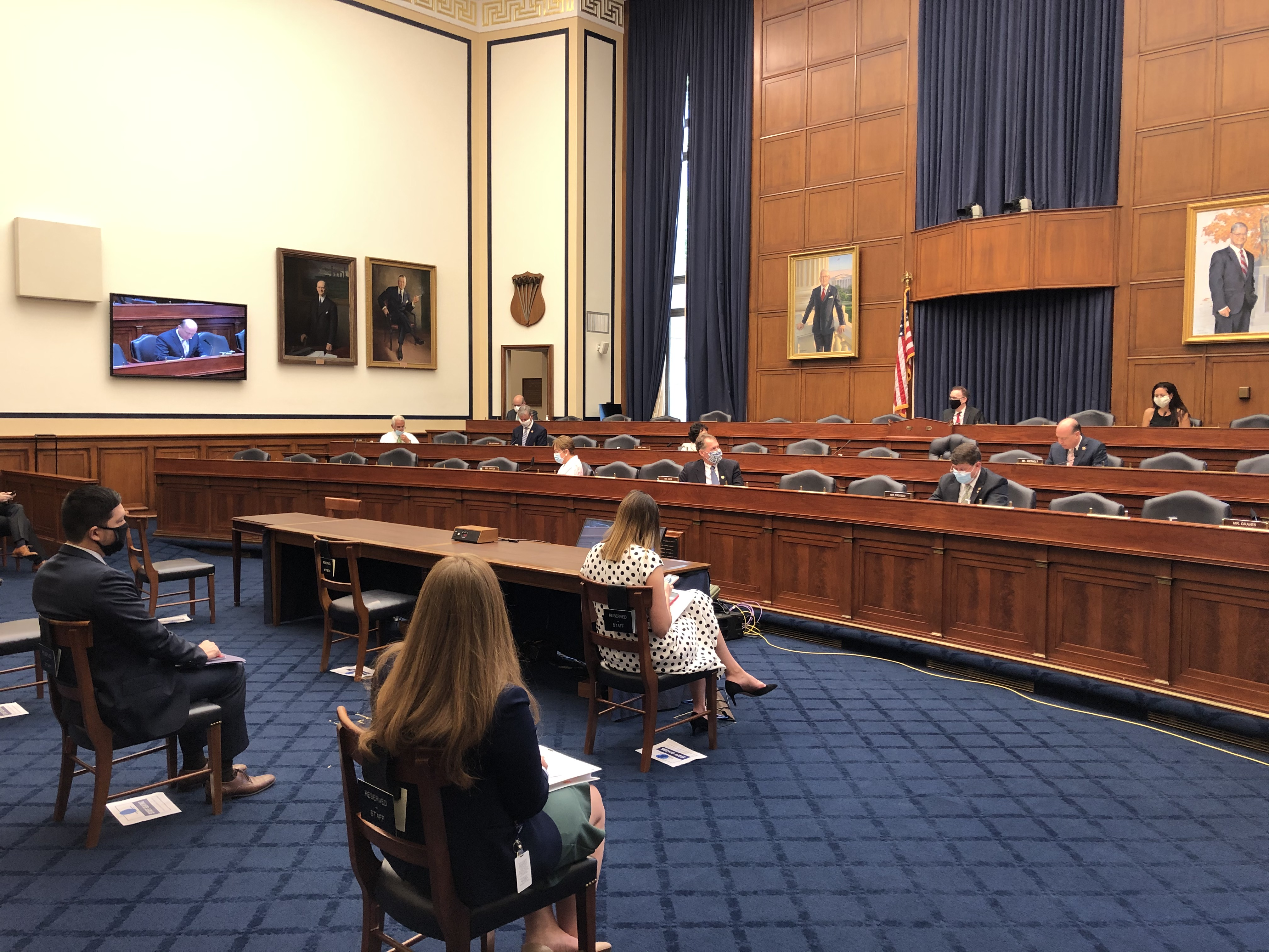 CJS Subcommittee markup. The people’s work on appropriations bills continues this week despite COVID-19.